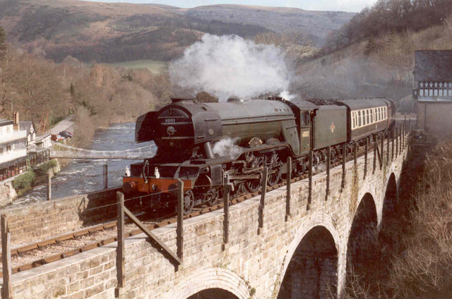 Berwyn, No. 60103 "Flying Scotsman" Passing the famous "Chain Bridge Hotel" on the left of the photograph is No. 60103 "Flying Scotsman" on the Llangollen Railway. You might be forgiven for thinking that this is a normal passenger train, but in fact it is a "Driver Experience Course," and therefore no passengers were allowed on it.